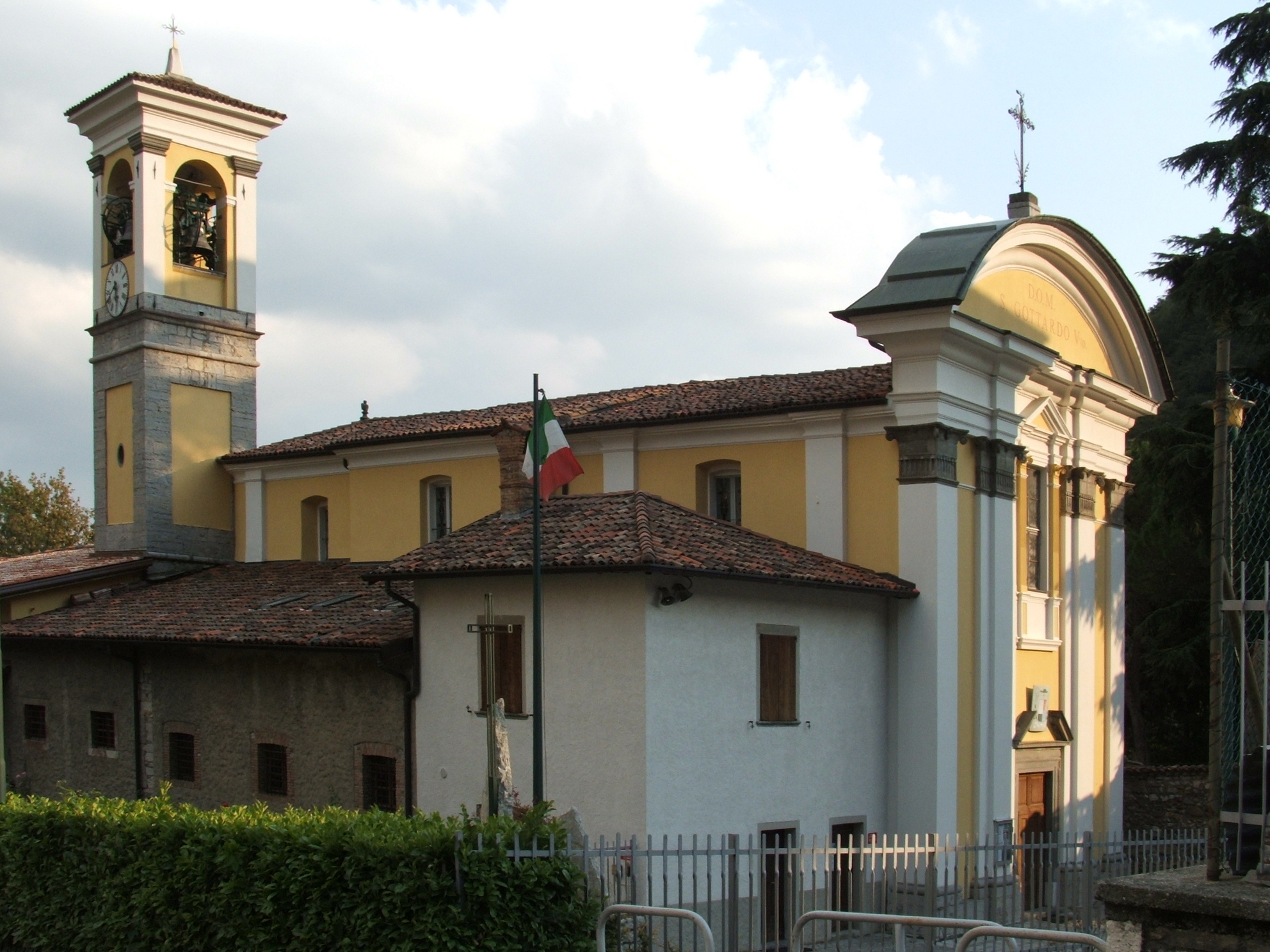 Ubiale Clanezzo, bergamo, Italy - Clanezzo saint Gotthard church